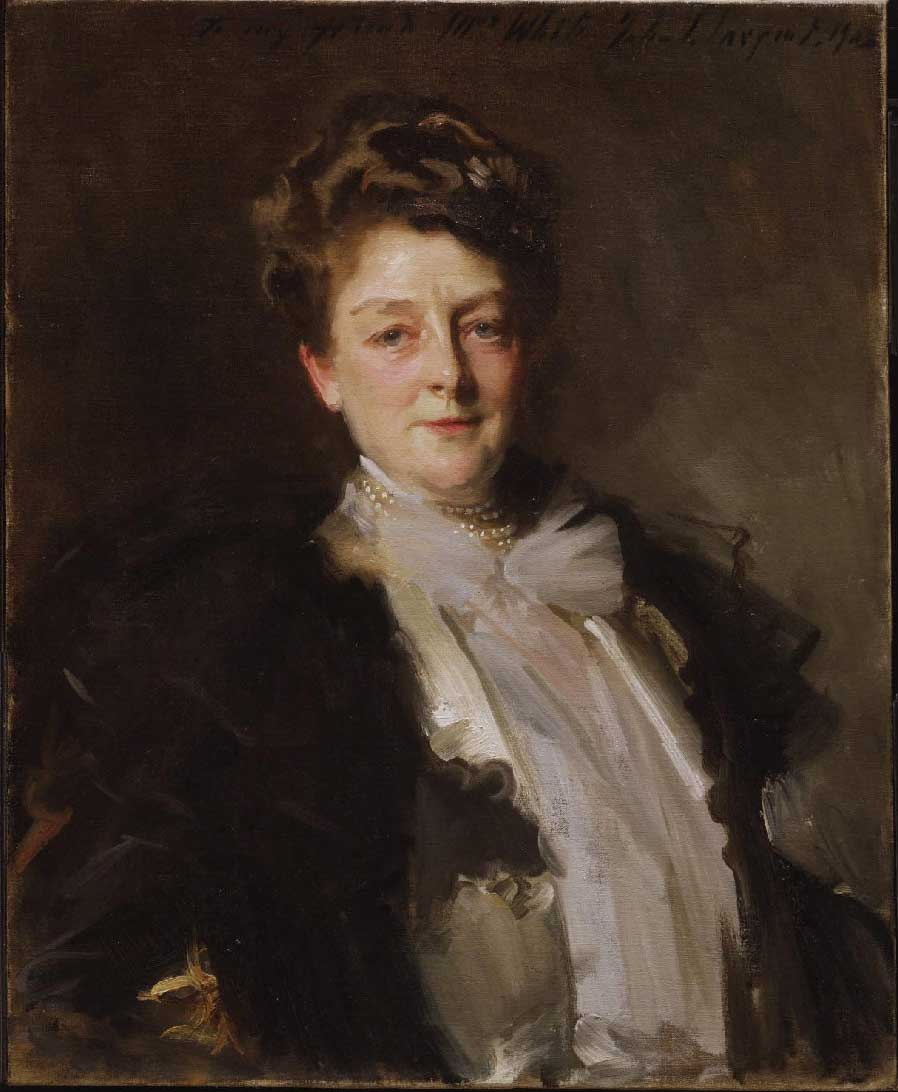 Mrs. J. William White John Singer Sargent -- American painter 1903 Philadelphia Museum of Art Oil on canvas 76.4 x 63.7 cm (30 1/16 x 25 1/16 in) Gallery 119, American Art, first floor F1925-5-1, Mrs. J. William White Collection, 1925 Jpg: Friend of the JSS Gallery